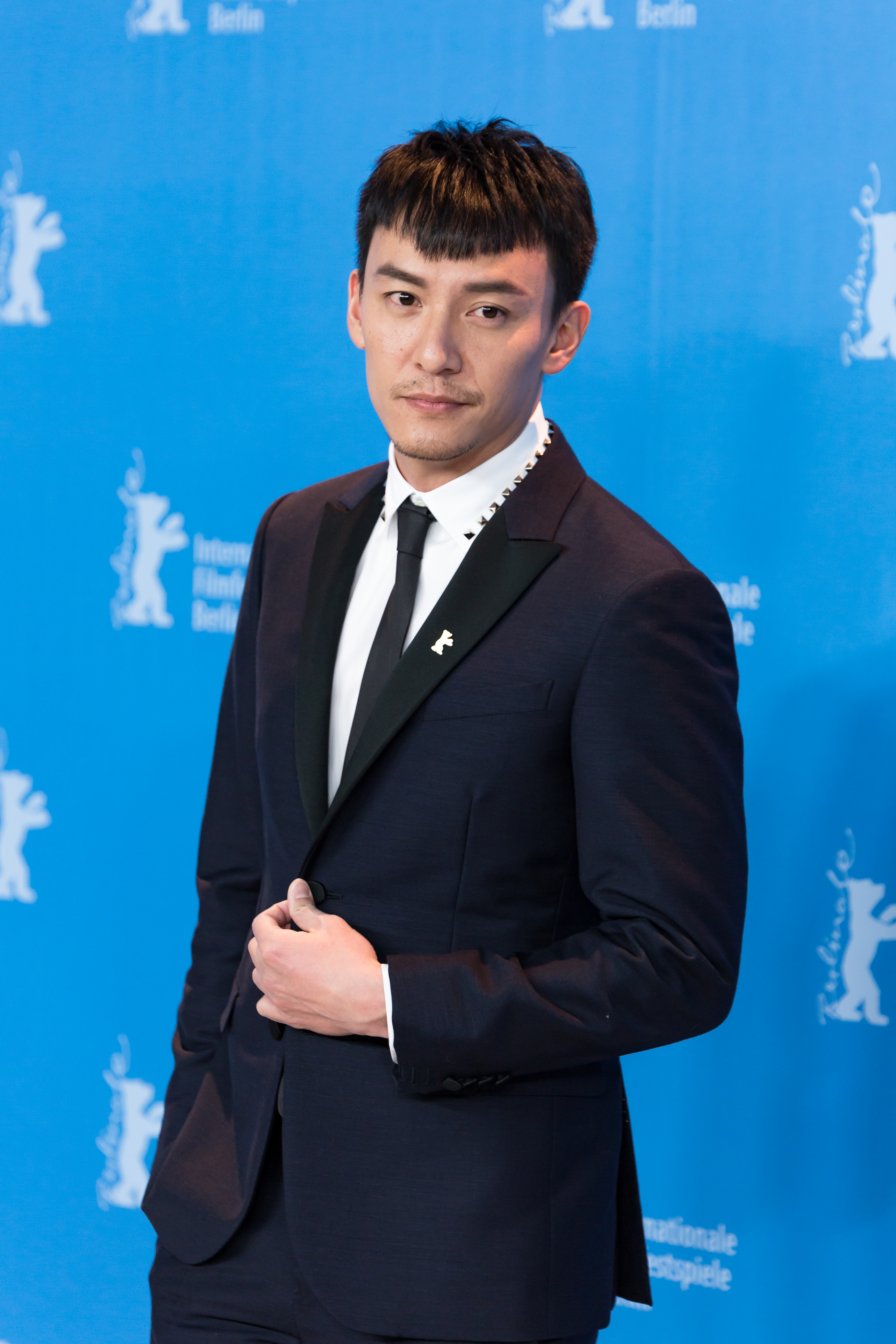 The actor Chen Chang at the presentation of Mr. Long at the Berlinale 2017